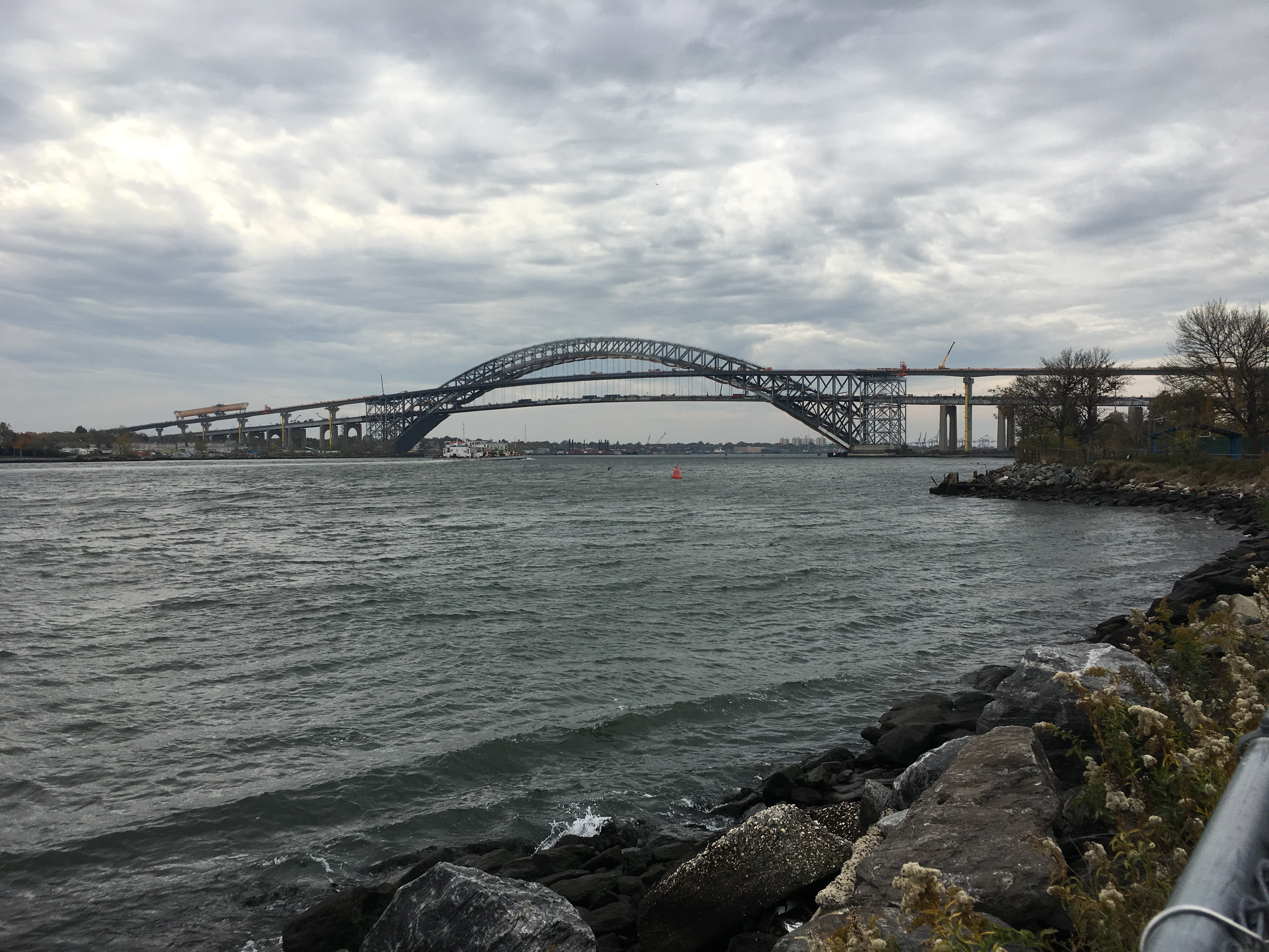 Ship on Kill Van Kull passing under Bayonne Bridge